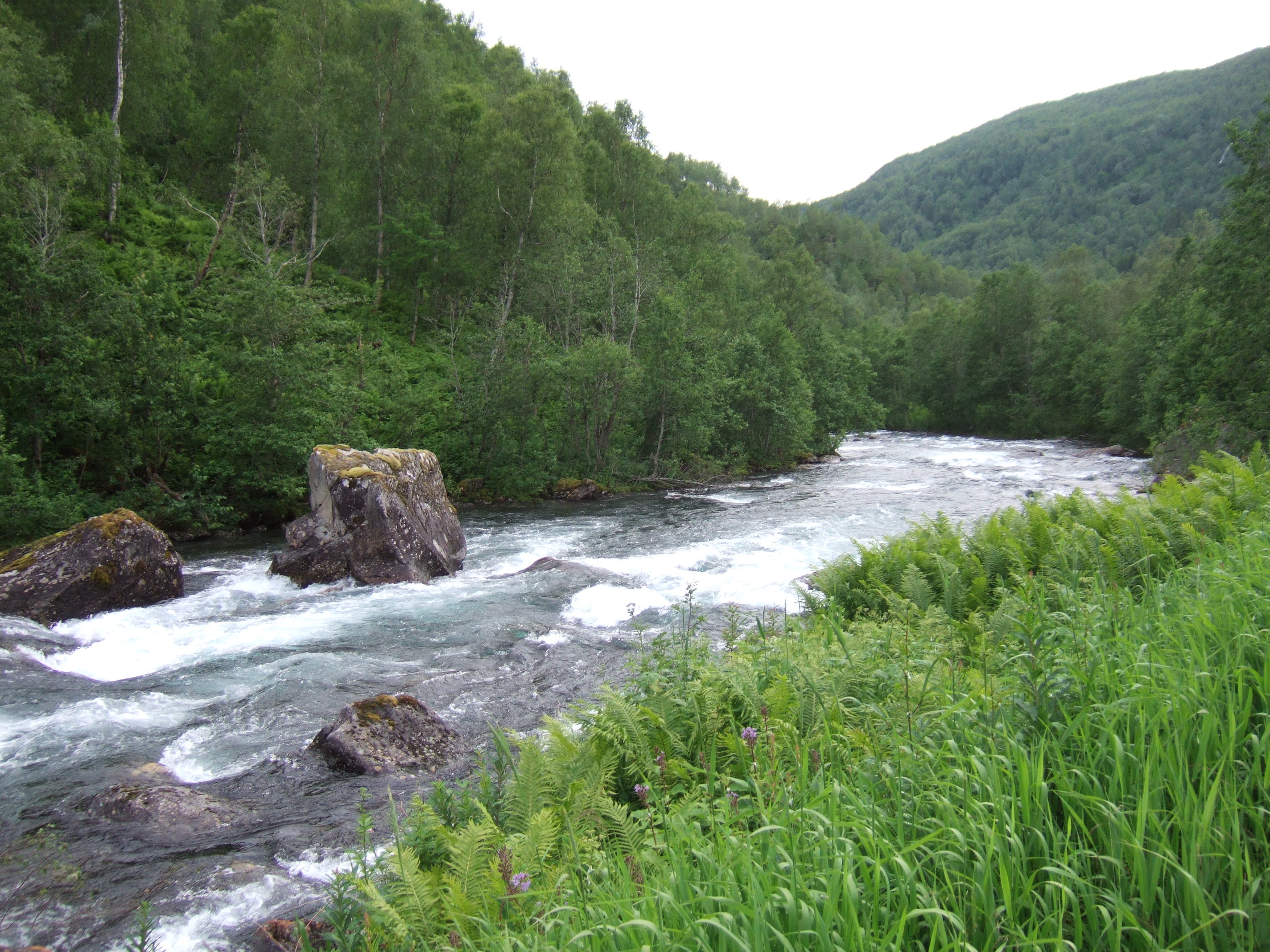 Laksåga river in Fauske, Nordland, Norway